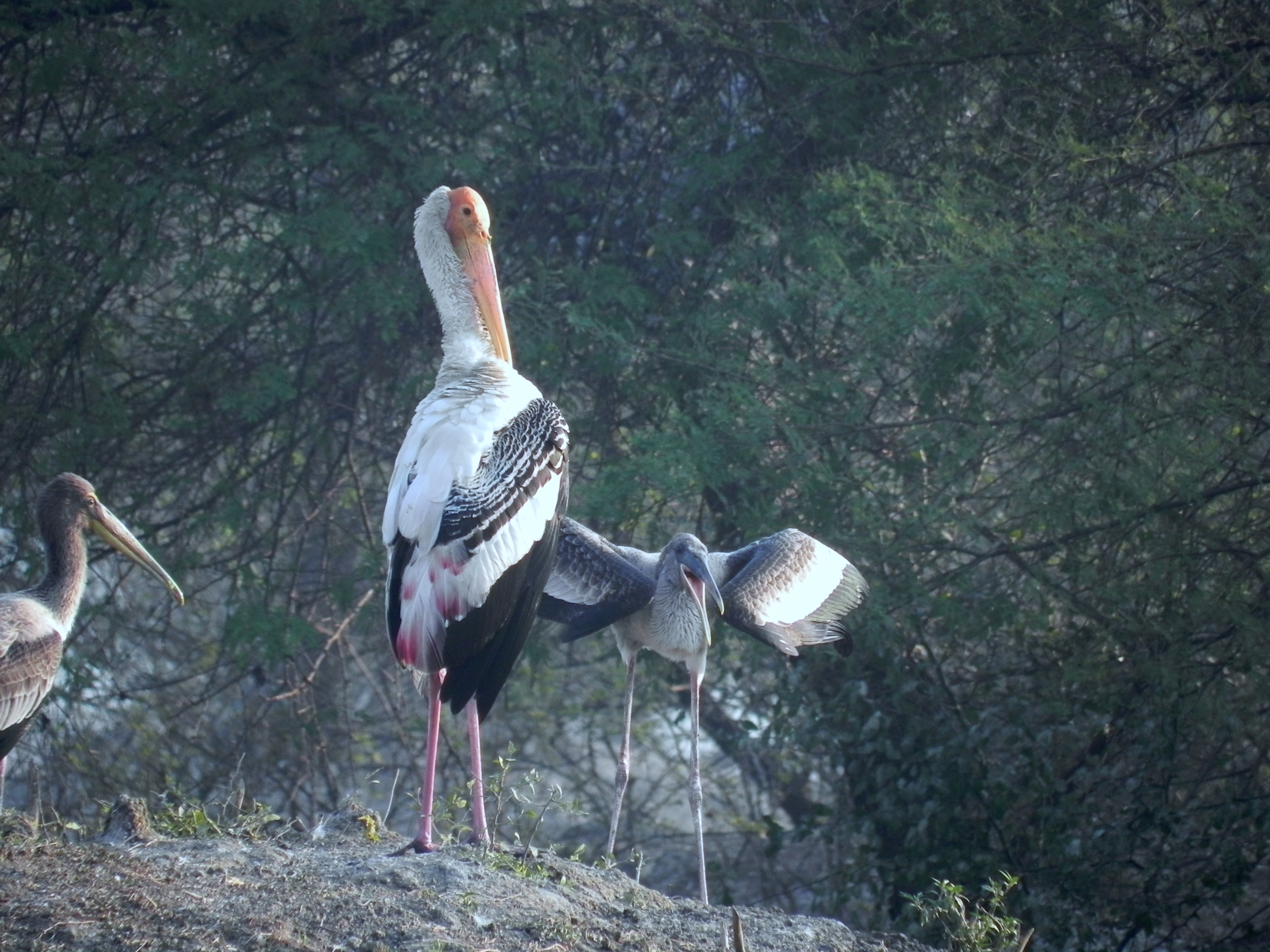 This photograph was taken during my recent visit to Keoladeo National Park in Bharatpur, Rajasthan. The picture depicts painted storks in the early morning in the wetlands of Keoladeo Ghana National Park.